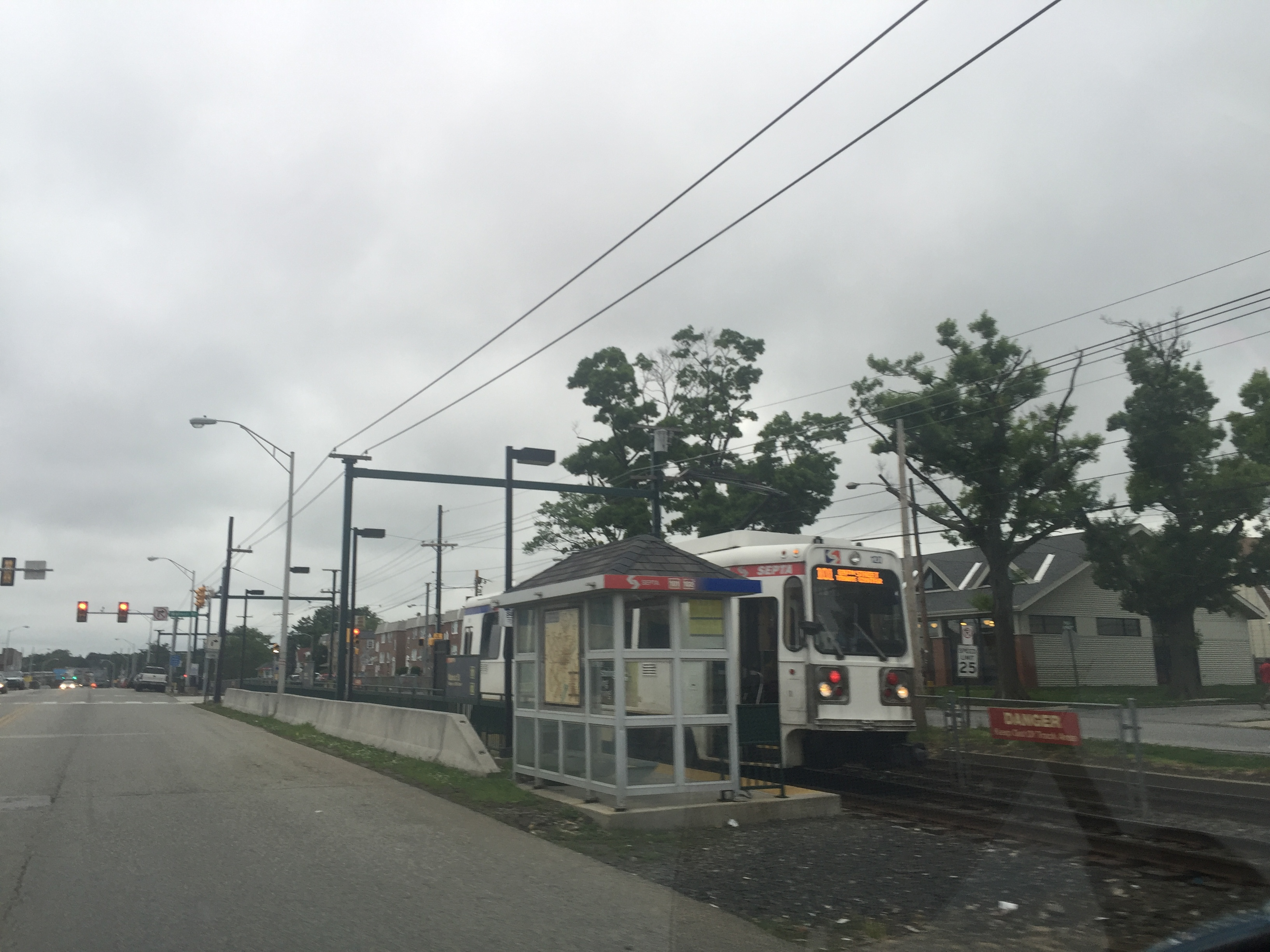 Walnut street with 102 trolley